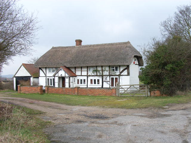 Firgrove Farm Cottage, Yateley. Situated at the northern end of Love Lane (byway).